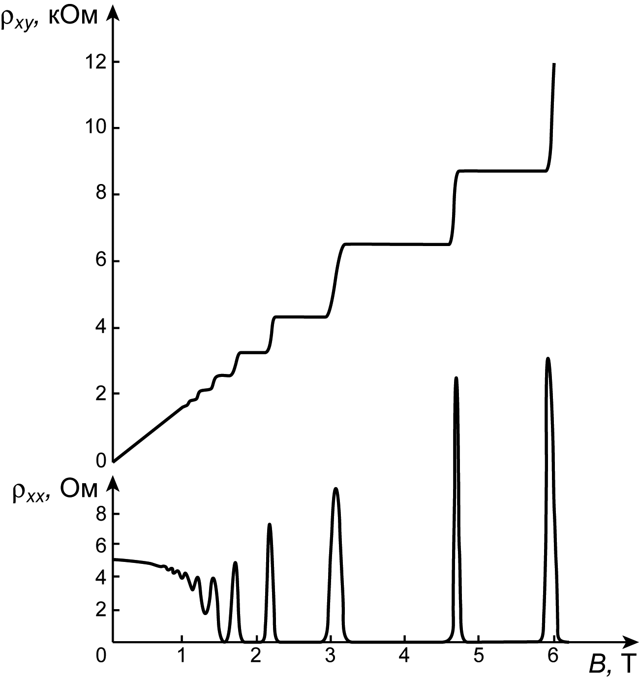 Diagram of the Quantum Hall effect.